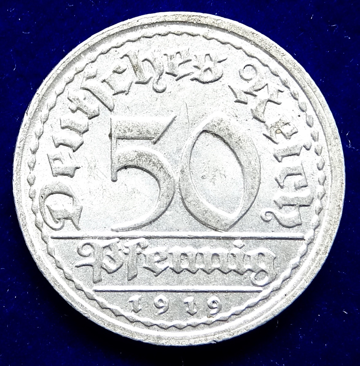 Denomination above date, curved above: "Deutsches Reich"/ 2 lines over sheaf: "Sich regen bringt Segen", mint mark below. KM 27. Medallists: Louis Oppenheim, 1879 Coburg - 1936 Berlin and Reinhard Kullrich, 1869 Berlin - 1947 Condition: EXTREMELY FINE, no hidden faults.